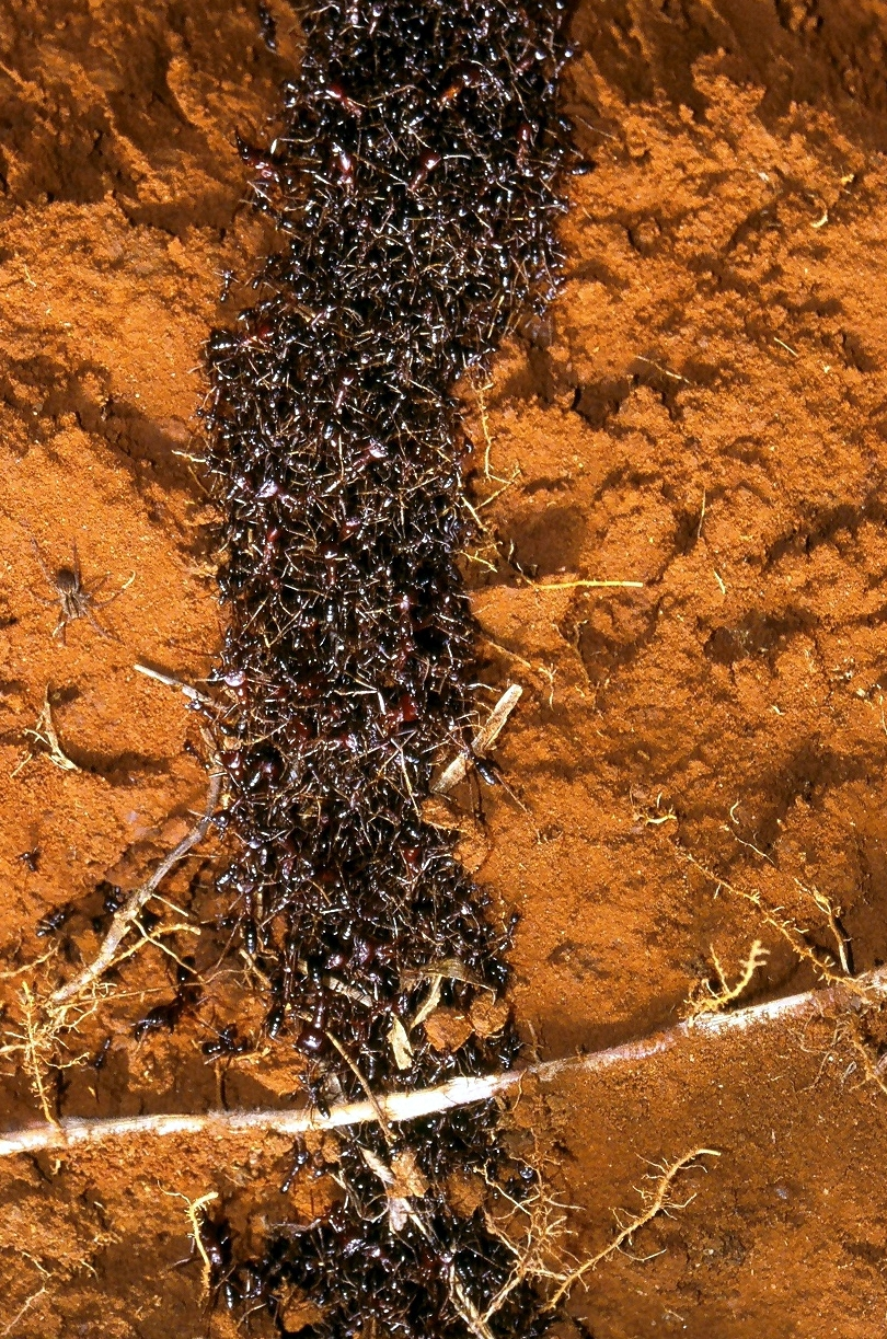 Some safari ant soldiers make tunnels to provide a safe route for the workers. Photo taken on the Chogoria of Mount Kenya.